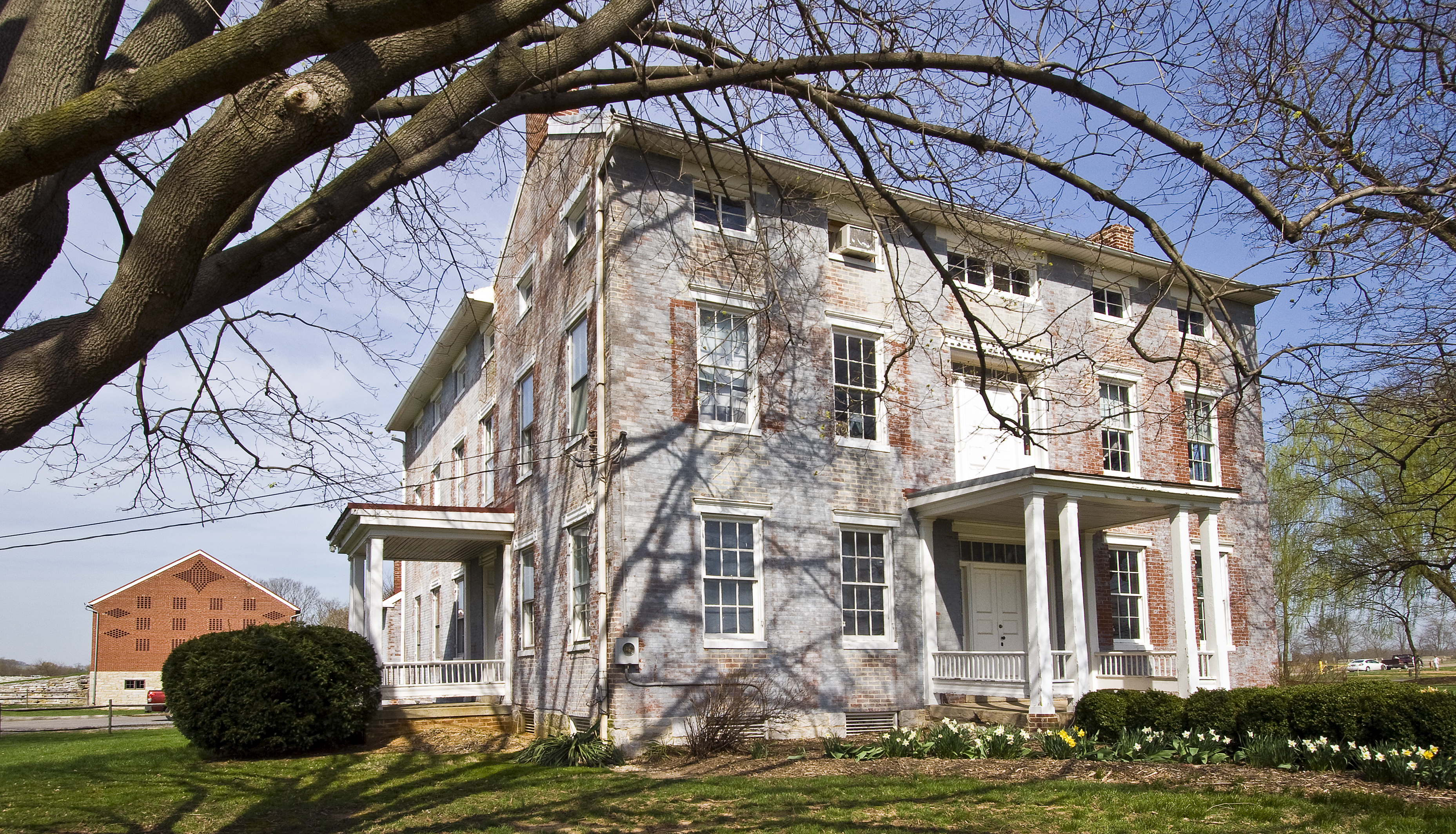 Harris farmhouse and barn, Walkersville, Maryland USA. Part of the Walkersville Heritage Farm Park.